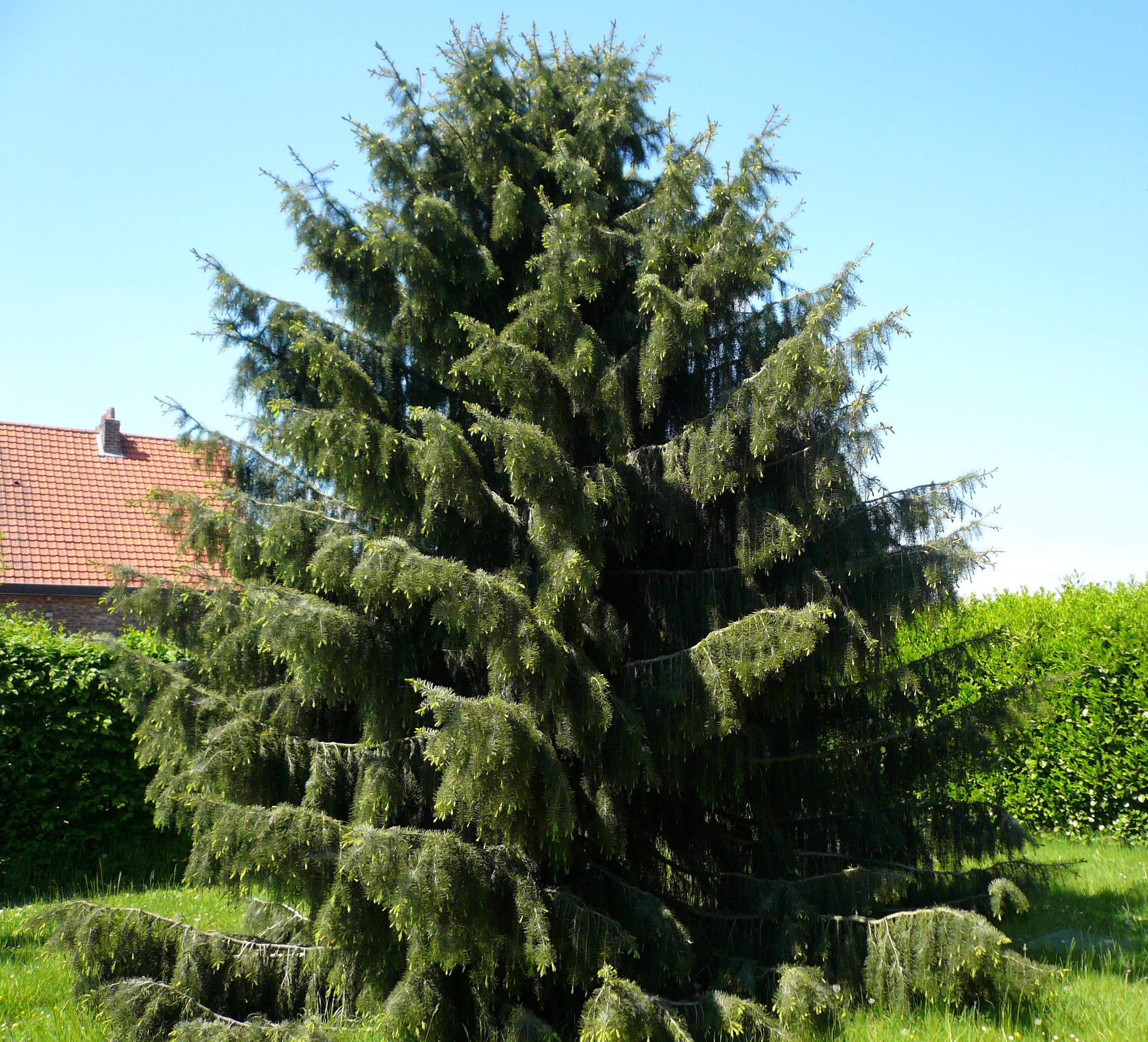 Picea breweriana - Photo prise dans mon jardin